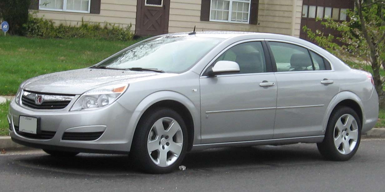 2007 Saturn Aura XE photographed in USA.